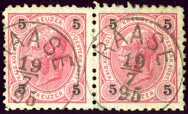 Austrian KK 5 kreuzer pair, cancelled at RAASE, Silesia (Czech Republic) in1895.